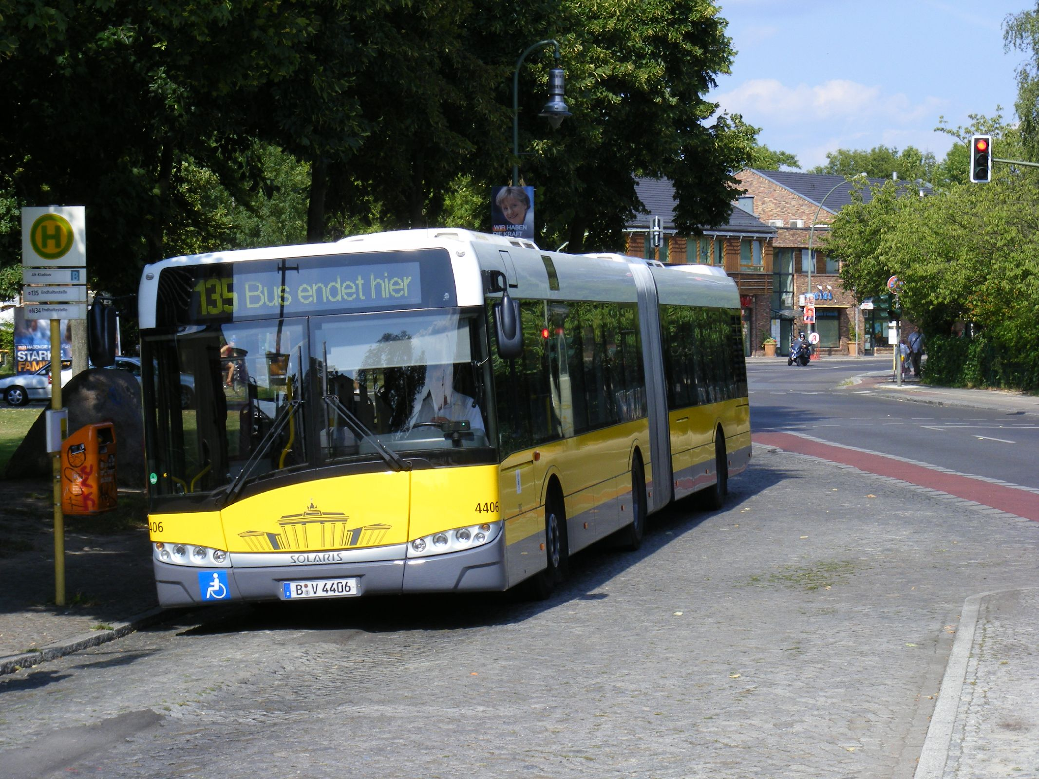 Terminus of the 135 at Kladow, with Solaris Urbino 18 articulated bus no 4406 (reg. B-V 4406, built 2009) in Berlin, Germany. BVG Berlin operator.